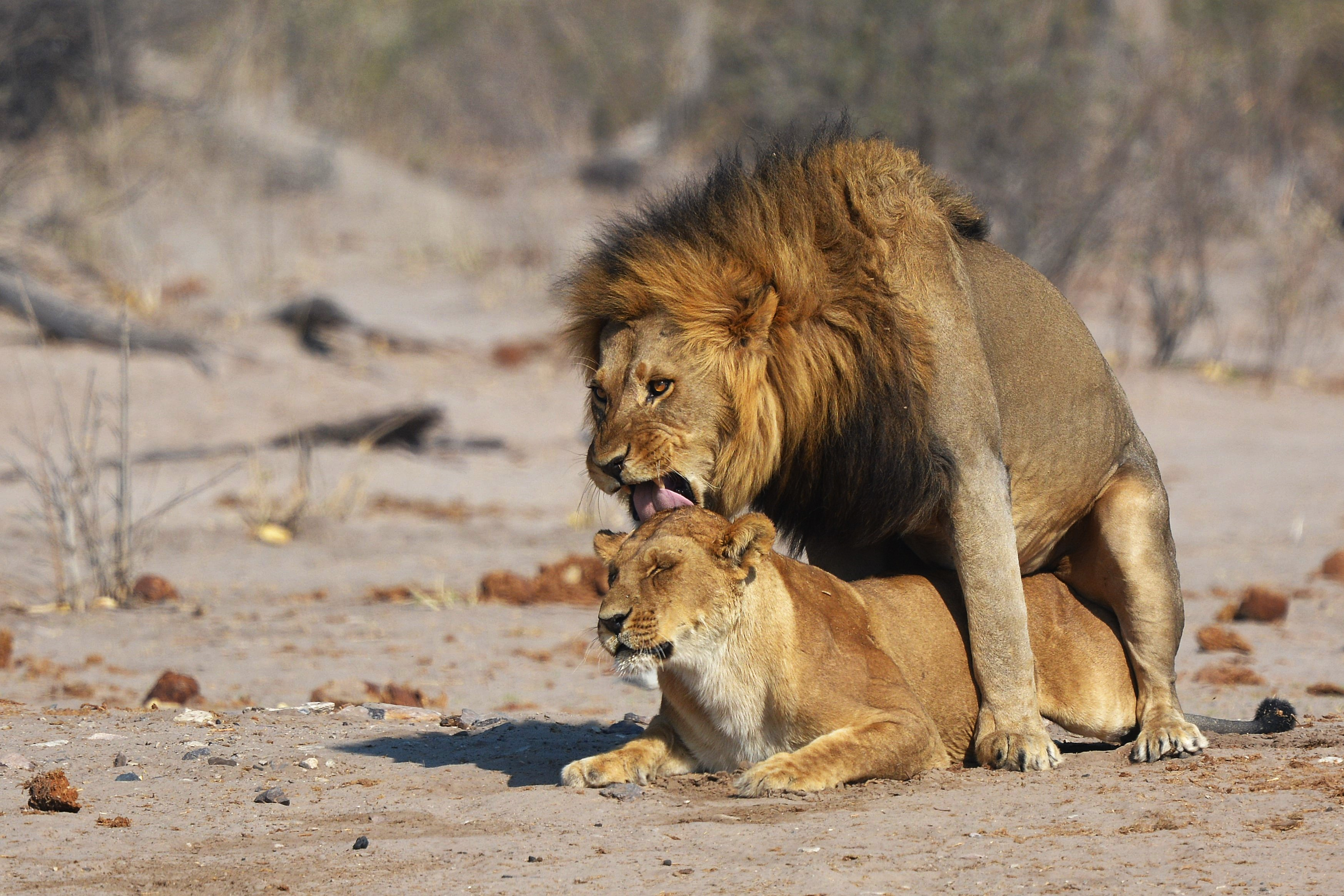 Picture taken in Botswana (Savuti area) in September 2019.